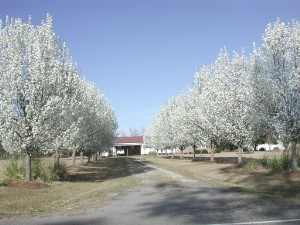 Bradford pear in bloom